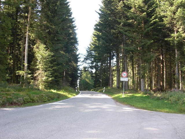 Schäfersfeld: Pass summit